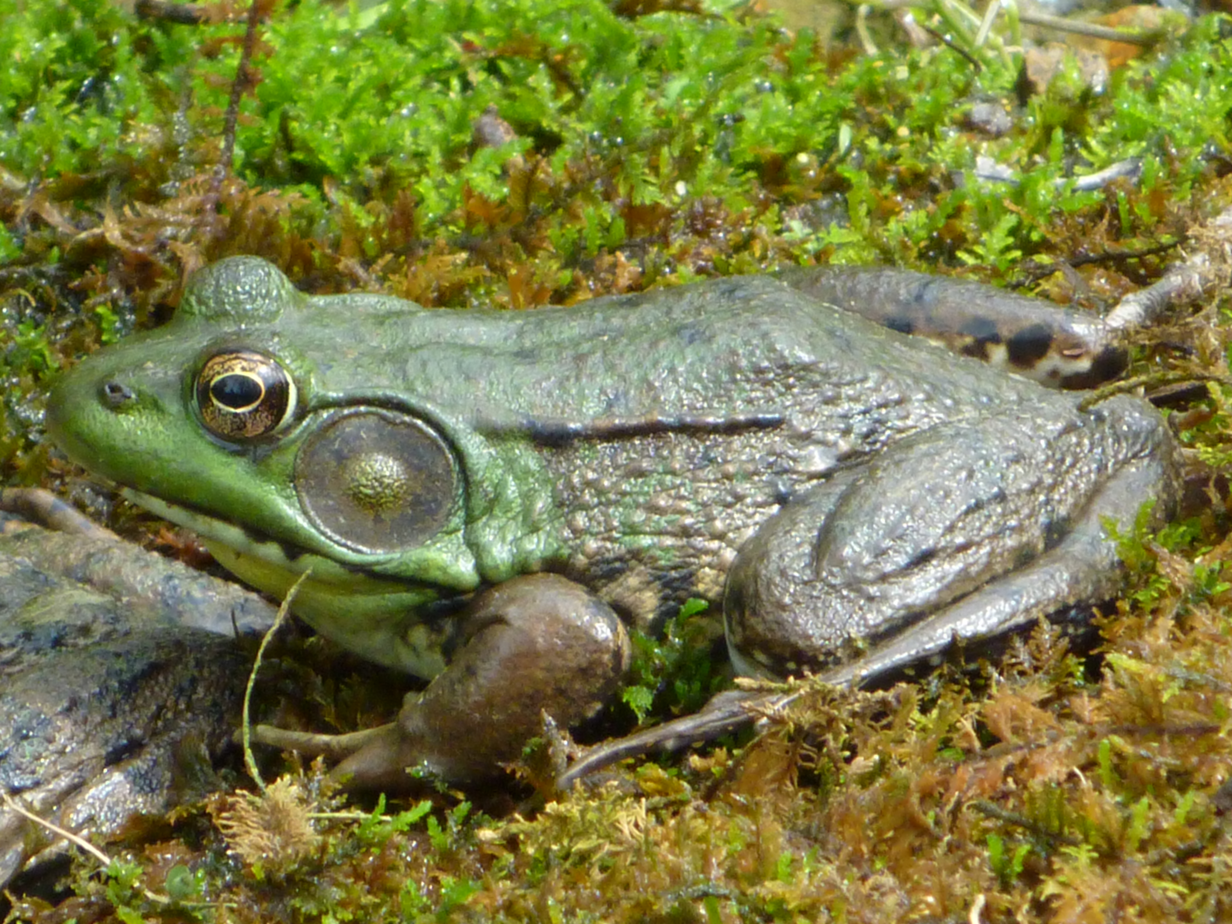 A male Northern Green Frog near a pond in Hunterdon County, NJ.